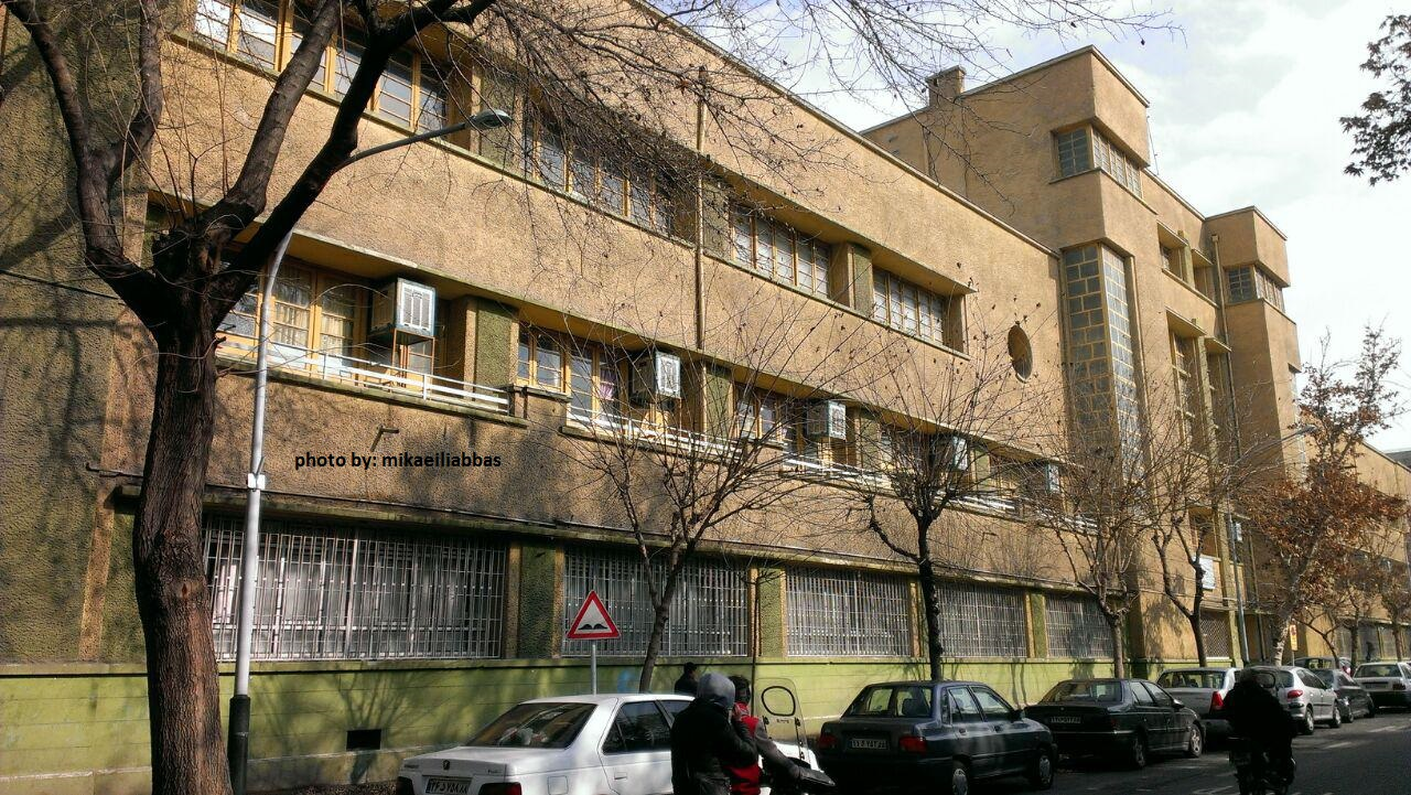 مدرسه و هنرستان موقوفه متقین